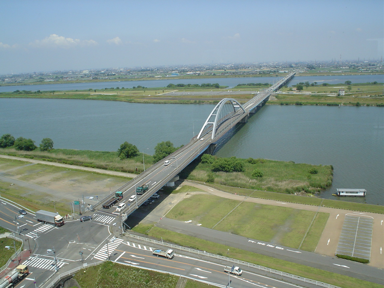 Nagaragawa Ohashi over the Nagara River and Tatsuta Ohashi over the Kiso River as seen from the Kisosansen Park Center observation floor